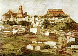 "Montilla", a drawing by Spanish painter Lorenzo Marqués of a view of Montilla (Córdoba, Spain)